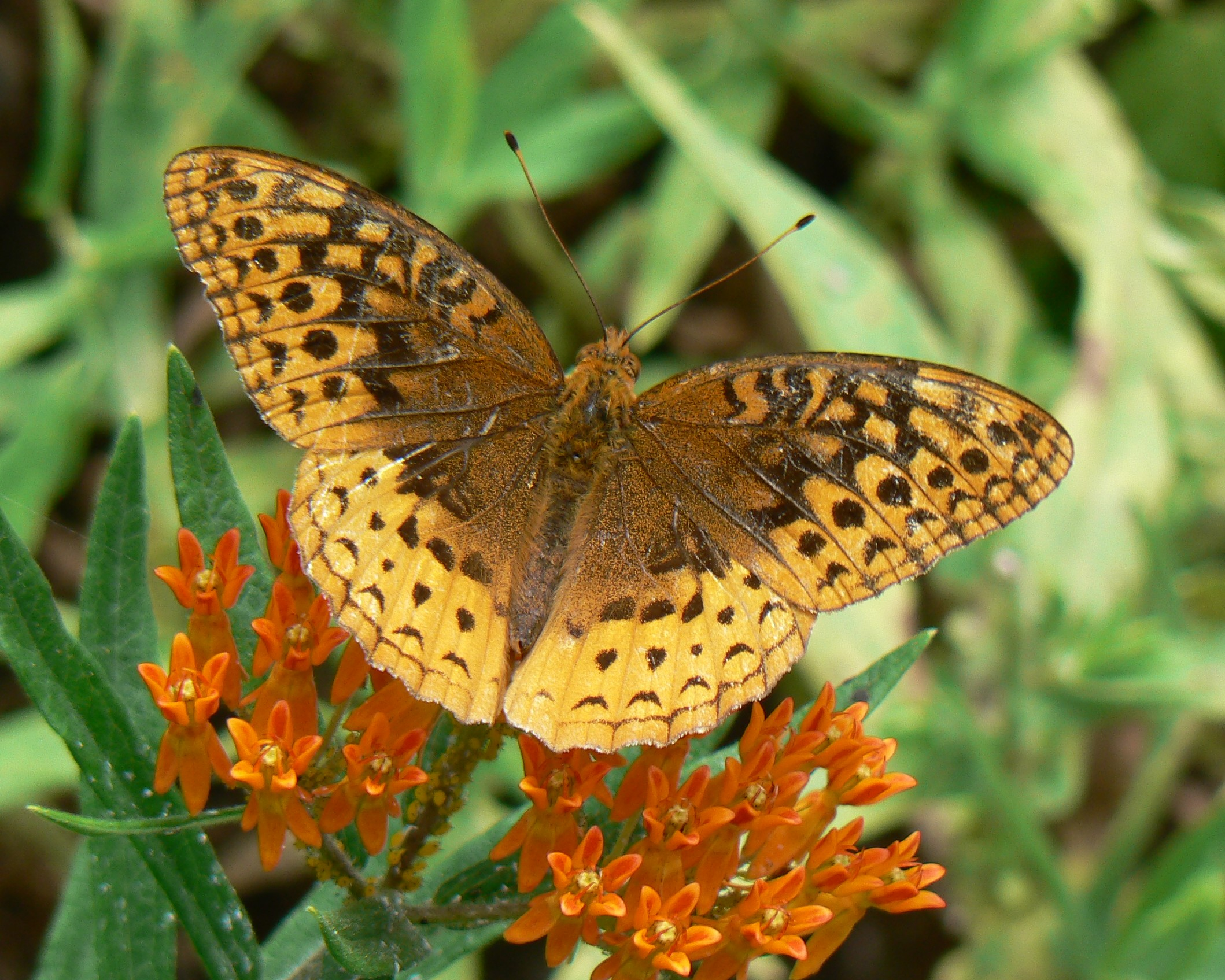 Great Spangled Fritillary feeding on Butterfly Weed (Asclepias tuberosa)